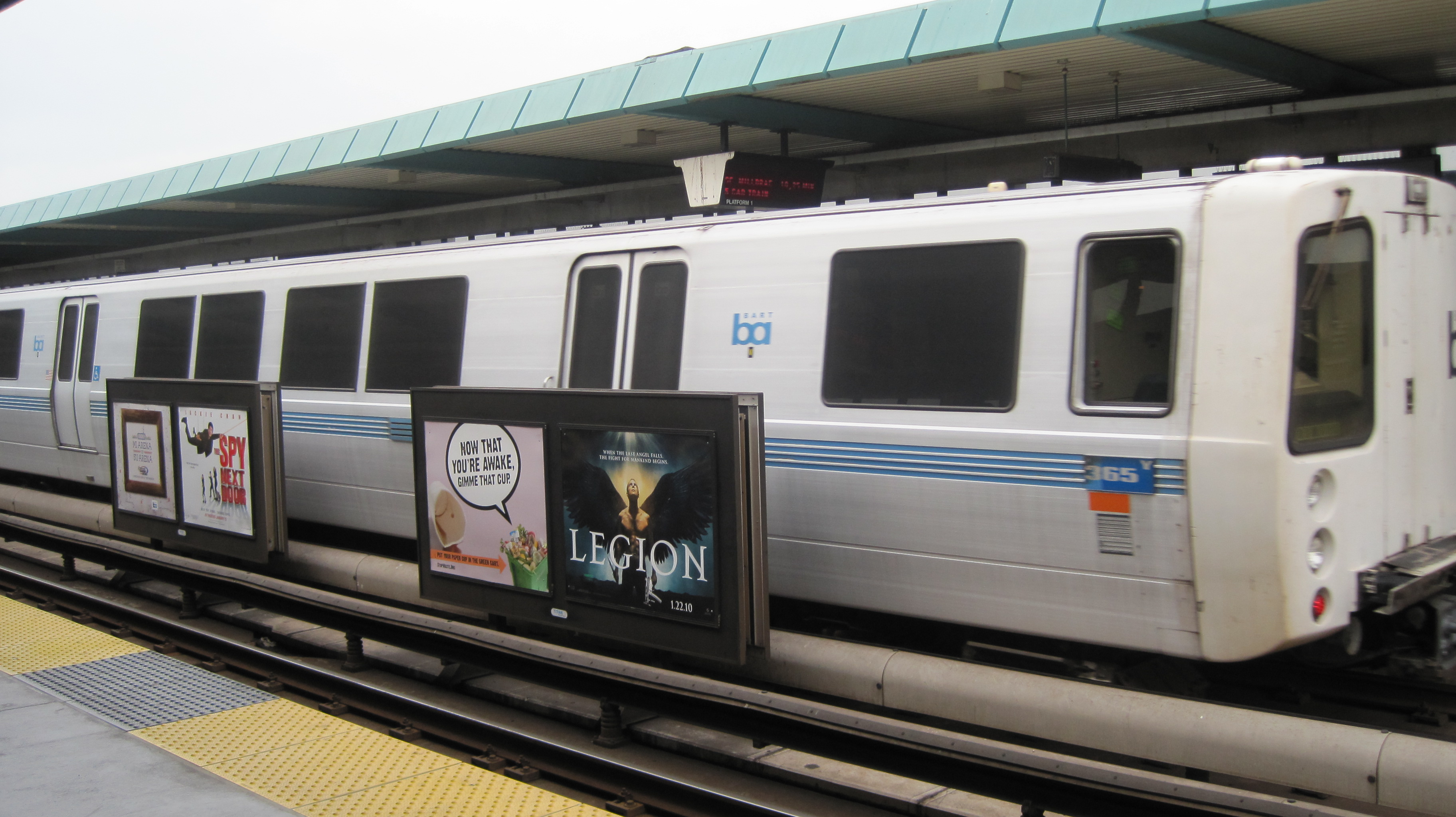 A BART train at West Oakland station.